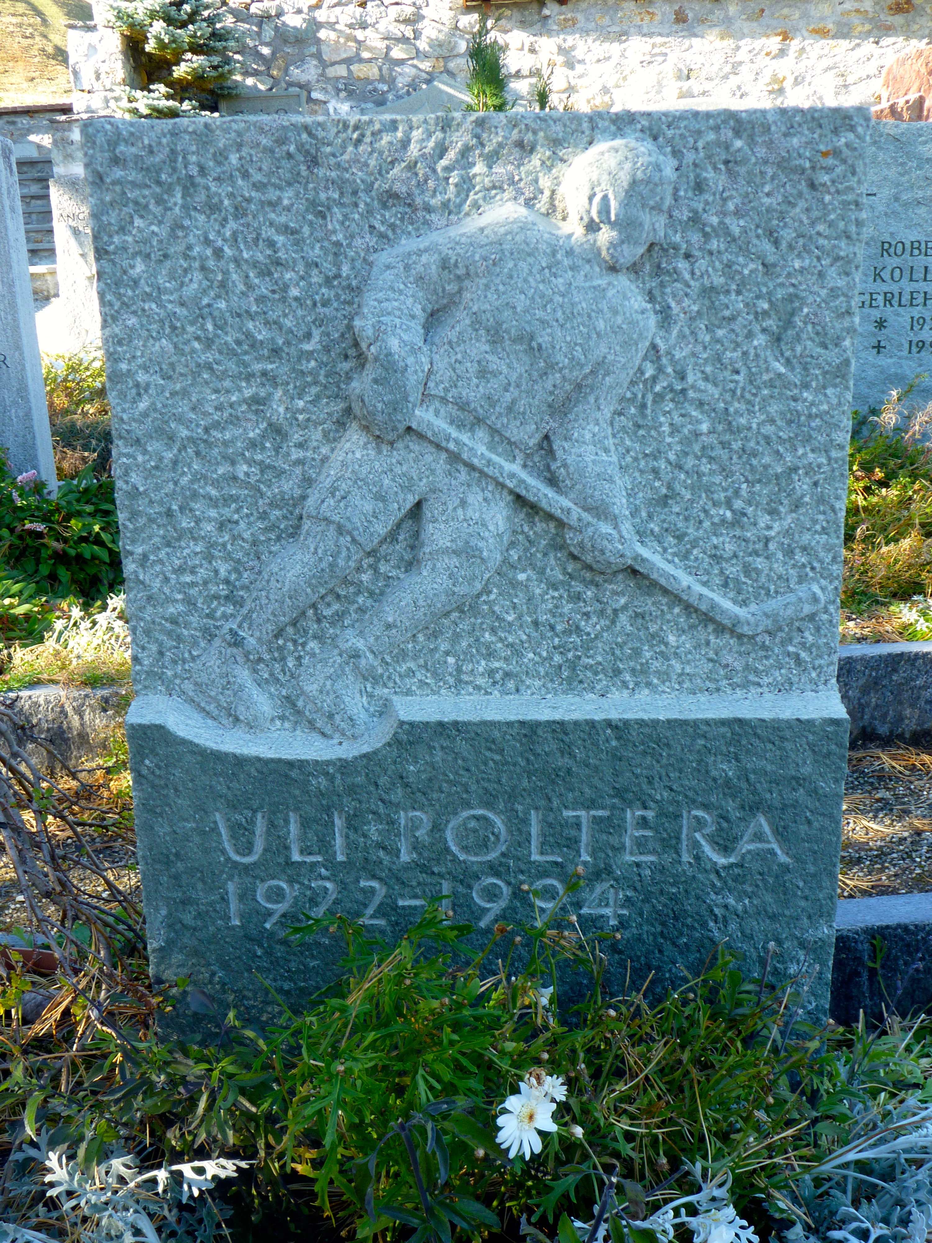 Grave of swiss icehockey player Ueli Poltera at Arosa/Switzerland